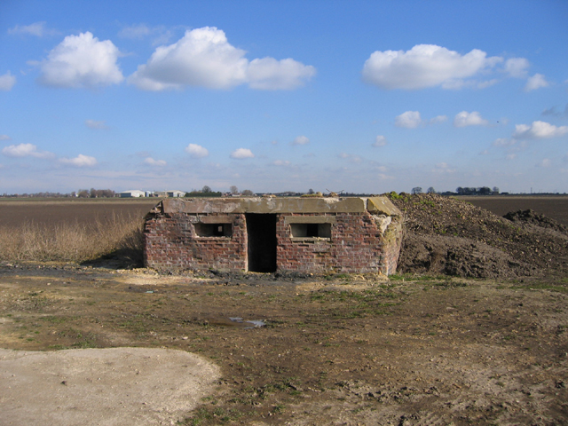 Pill Box, Speechley's Drove, Borough Fen, Peterborough.